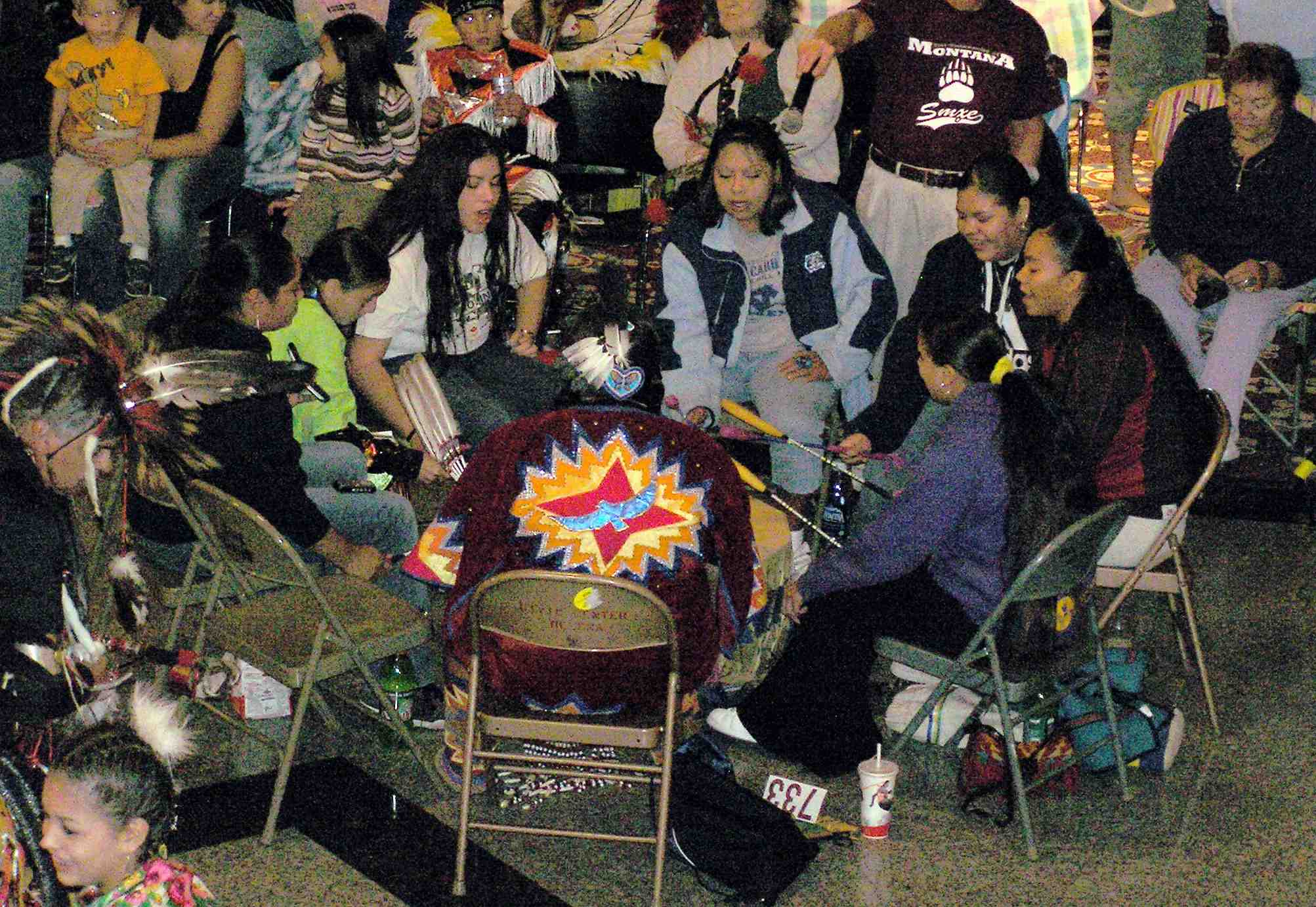 Image from Last Chance Community Pow Wow 2007, Helena, Montana